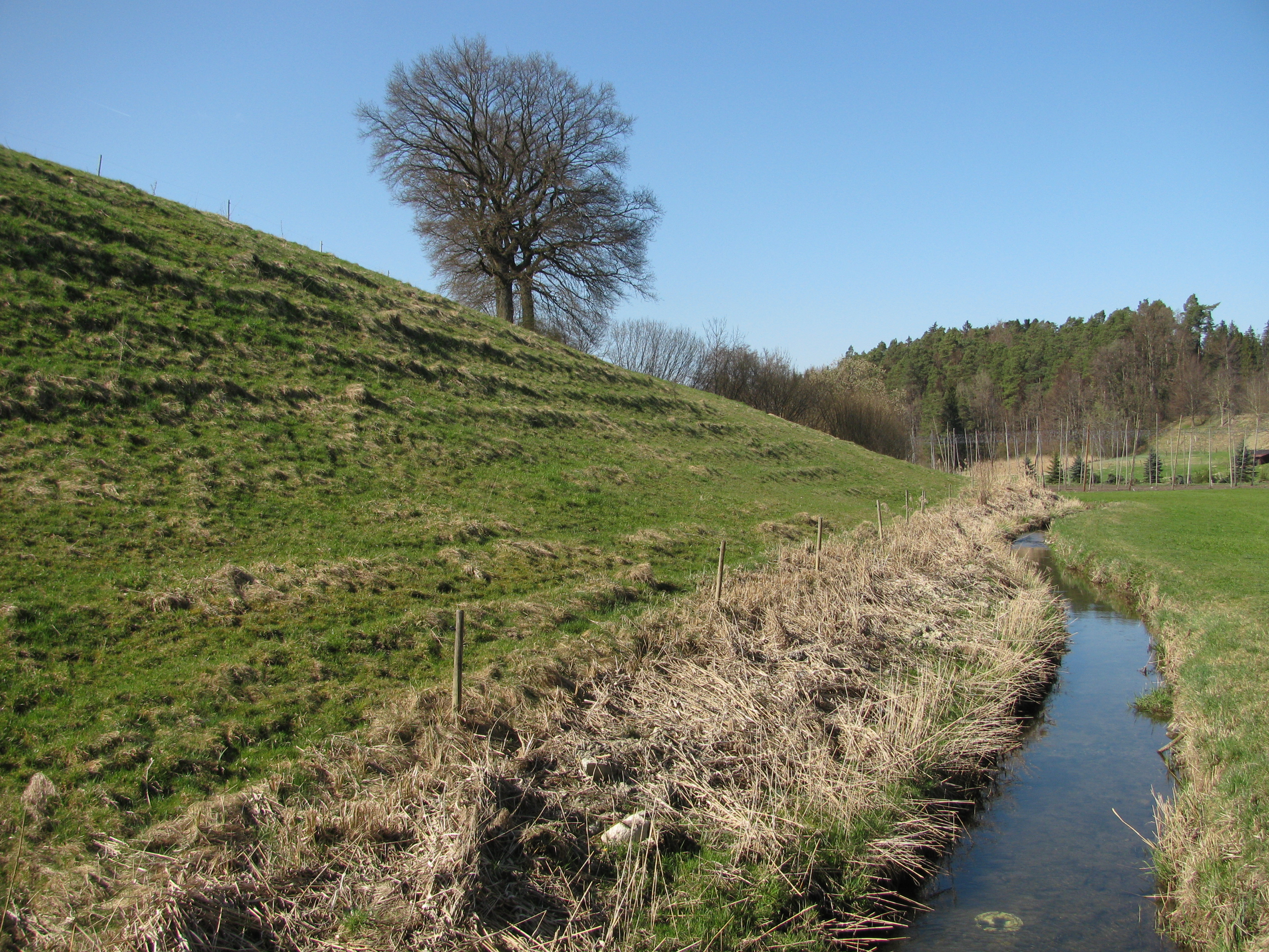 Germany - Baden-Württemberg - Bodenseekreis - Tettnang: 'Spätwürmeiszeitliche Terrassen zwischen Burnau, Prestenberg, Vorderreute, Buch und Krumbach' protected landscape area